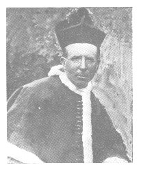 Description: Patrick Augustine Sheehan Date: taken in late 19th century Uploaded by User:Ali-oops from [1] Bild:Canonsheehan.jpg Image:Canonsheehan.jpg